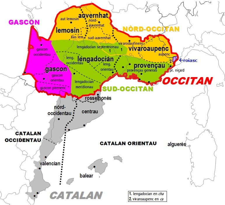 Dialectal classification of Occitan according to Domergue Sumien